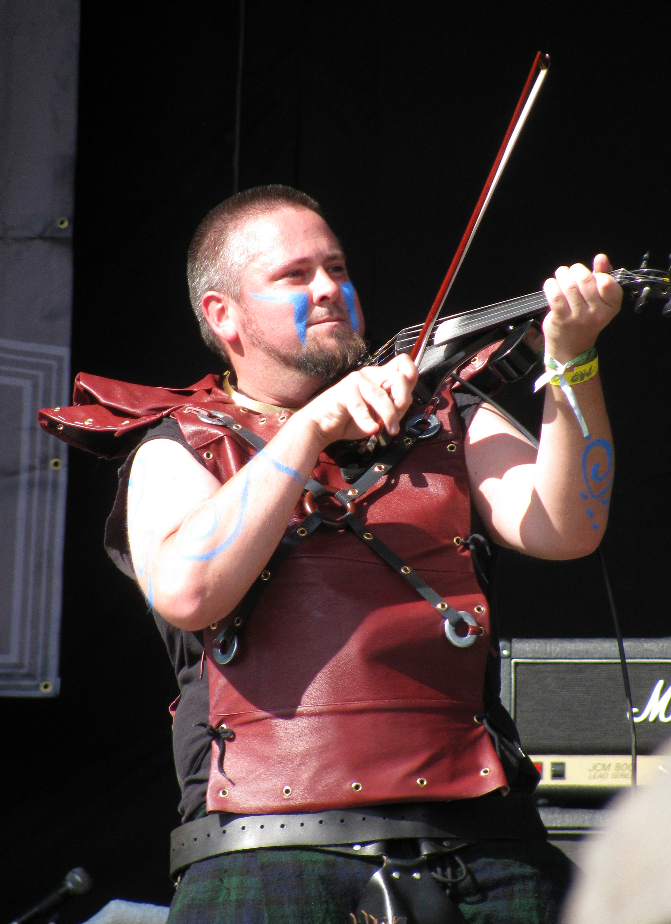 Cruachan playing at Global East Rock Festival 2010